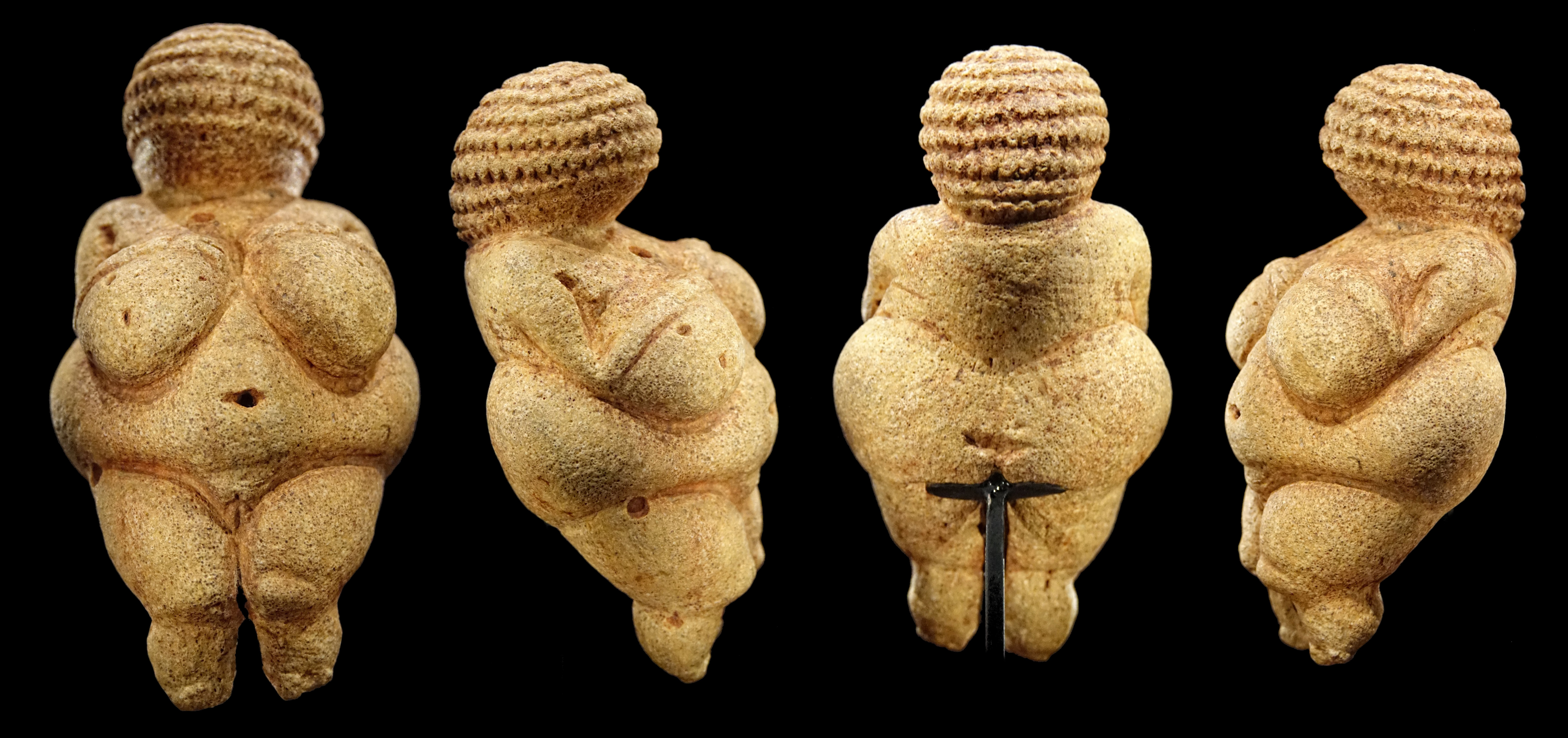 Venus of Willendorf as shown at the Naturhistorisches Museum in Vienna, Austria, in January 2020.